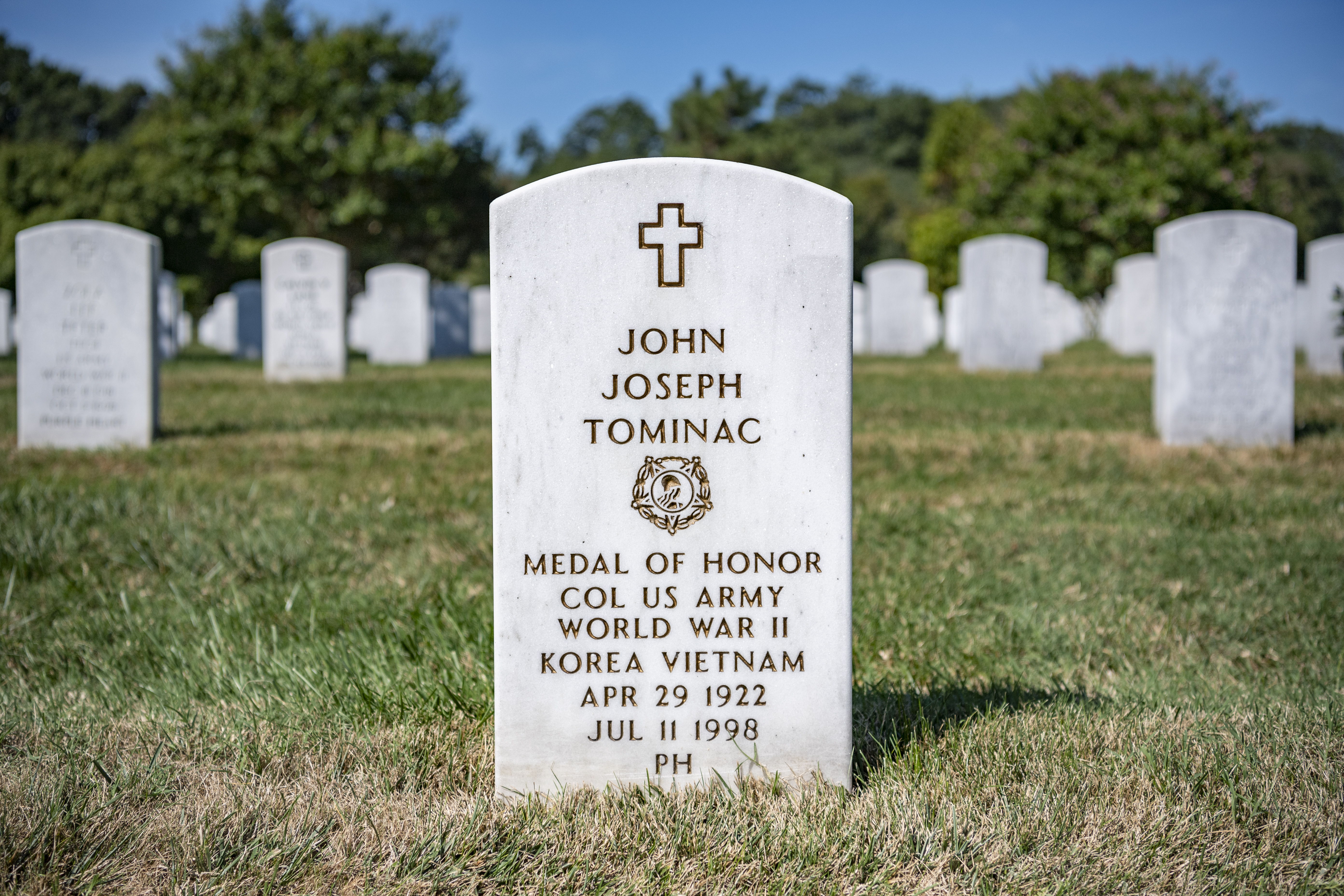 Headstone of U.S. Army Col. John Tominac, Medal of Honor Recipient, in Section 66 of Arlington National Cemetery, Arlington, Virginia, Aug. 30, 2019. (U.S. Army photo by Elizabeth Fraser / Arlington National Cemetery / released)